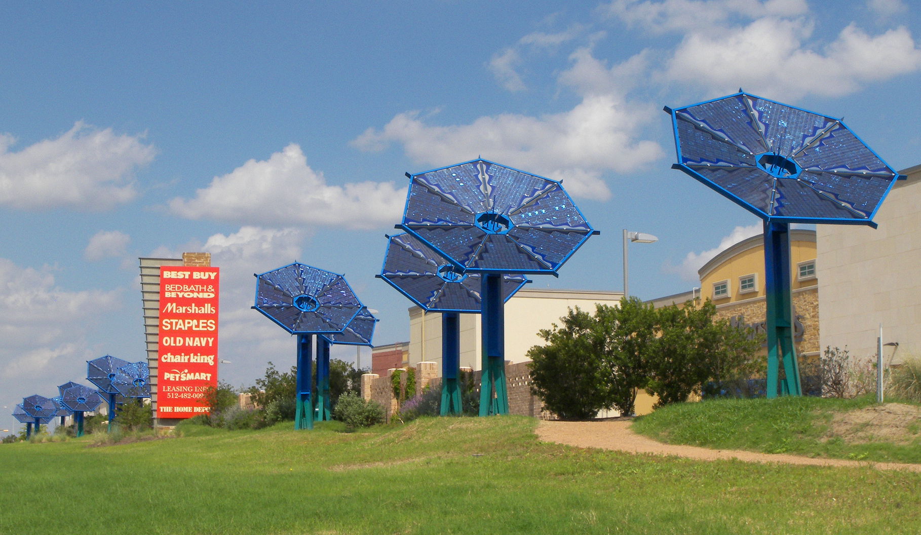 The Mueller Austin solar array in Austin, Texas, United States. This a series of 18 to 20-foot tall flower-shaped sculptures that collect solar energy to light the buildings at night.